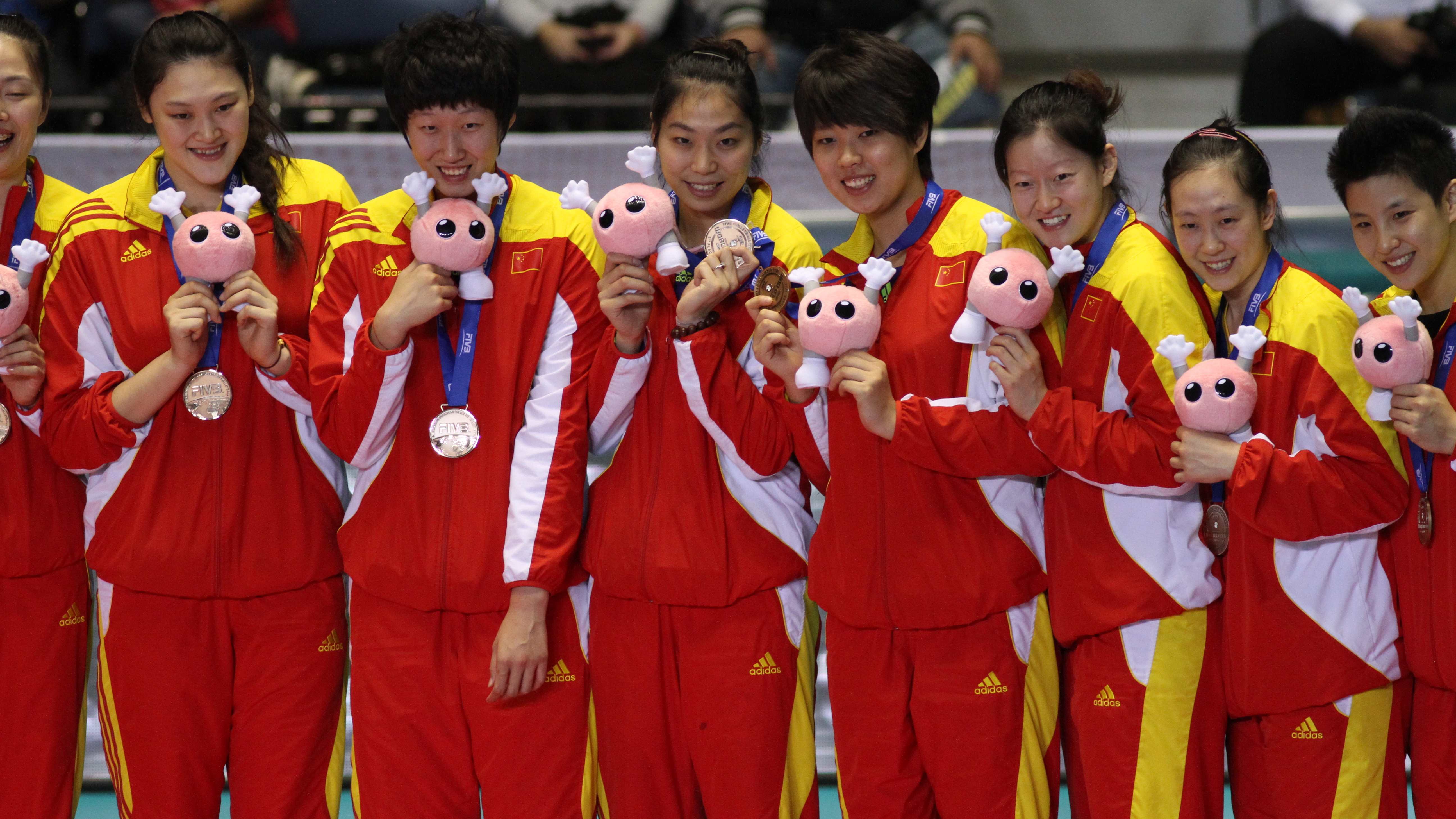 Posted via email from Globalite Magazine